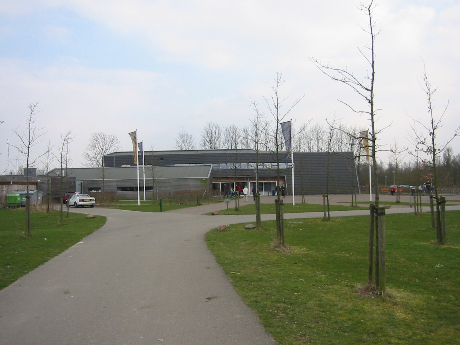 Flevolandschap office.